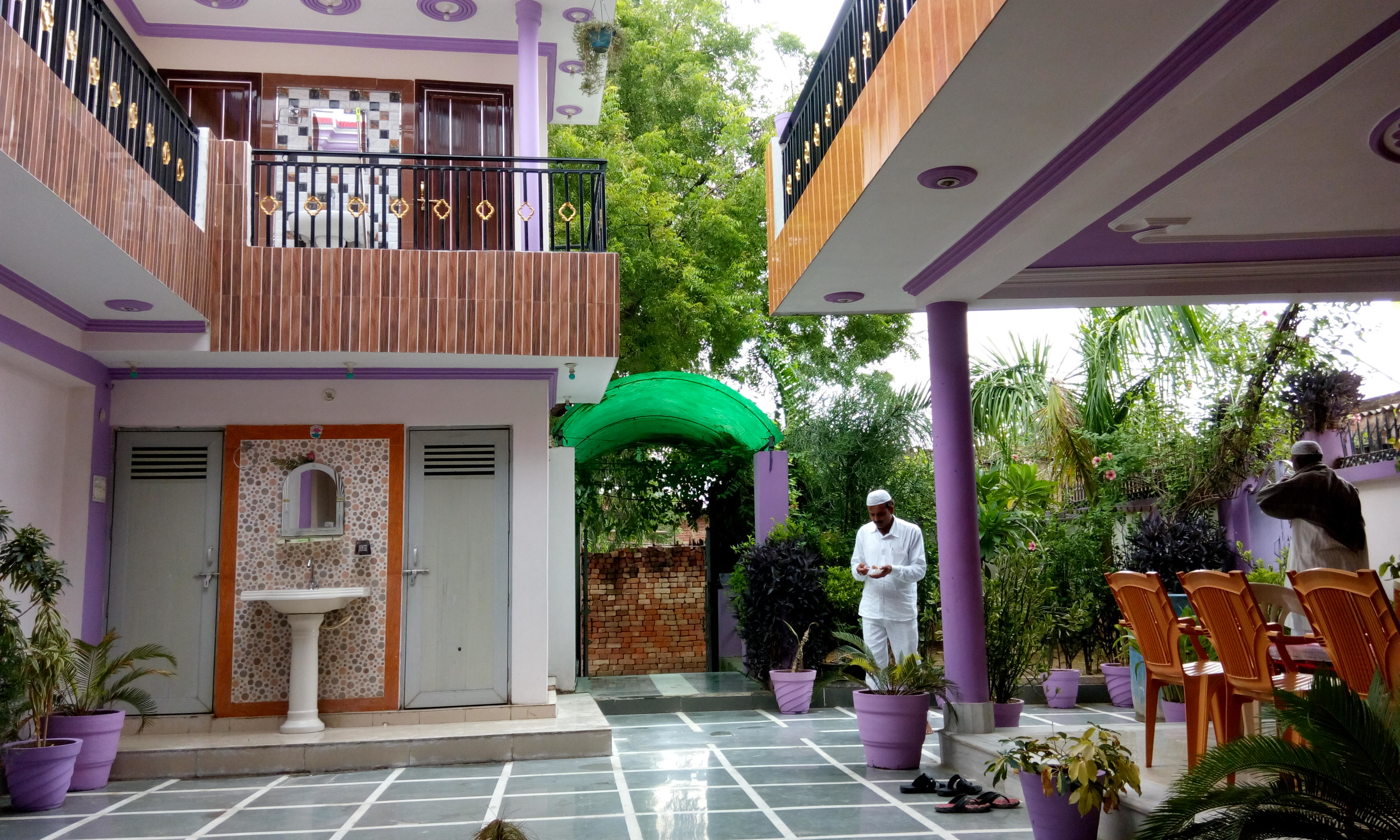 Beautiful Houses in Surseni